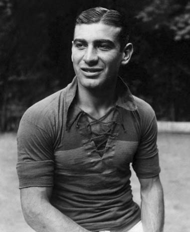 Portrait of Boca Juniors forward Francisco Varallo.